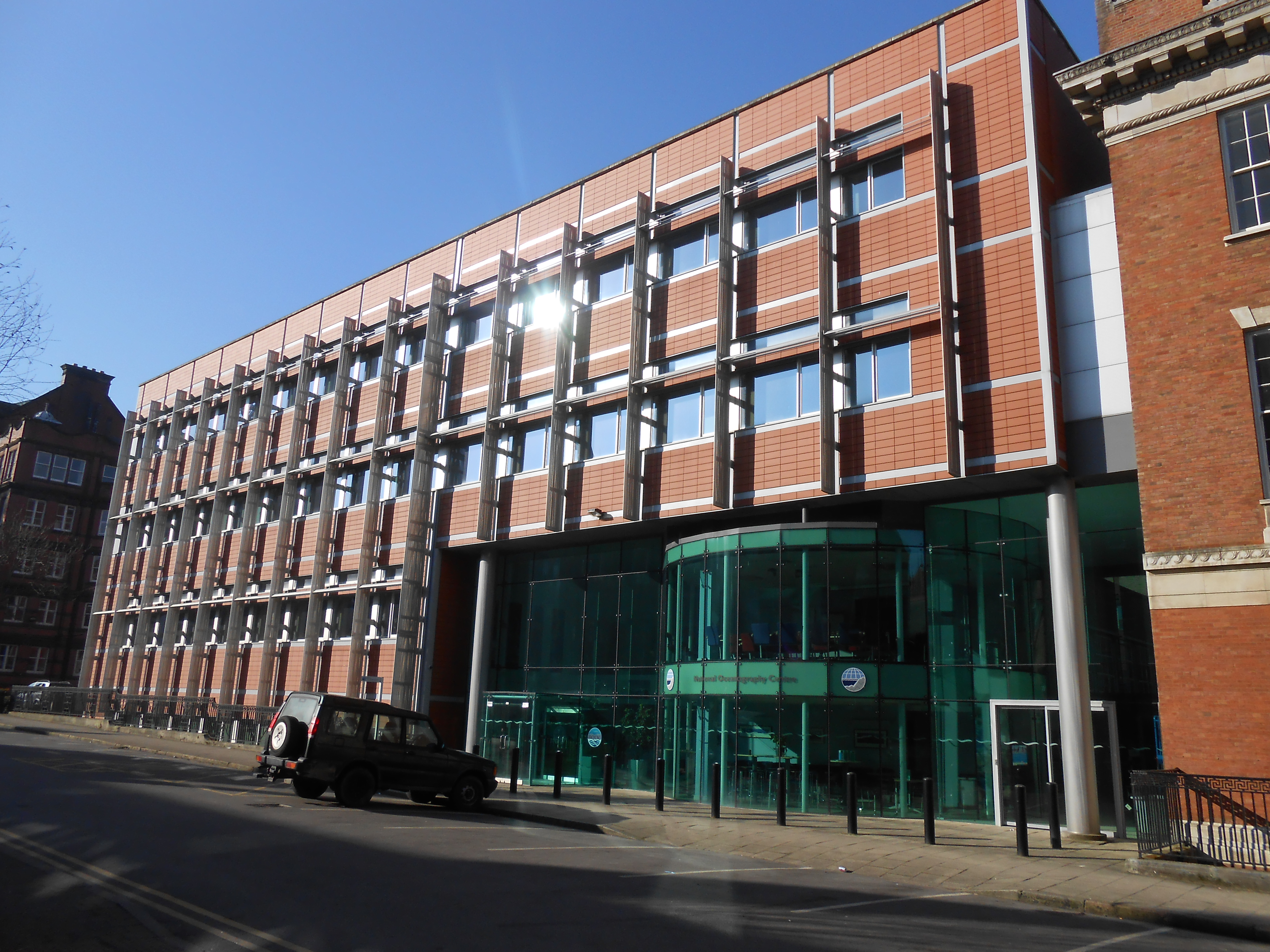 National Oceanography Centre, Joseph Proudman Building, Brownlow Street, Liverpool, England.